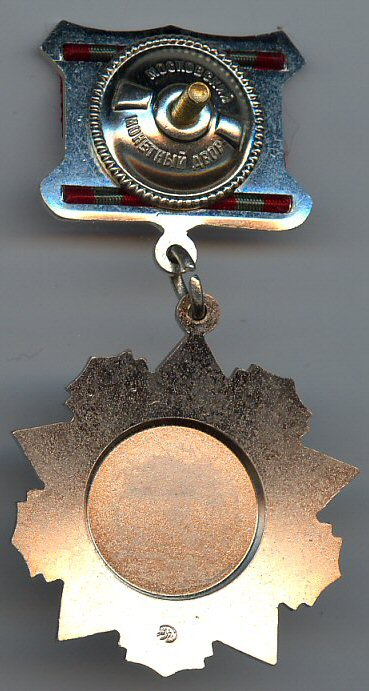 Medal for Distinguished Military Service 2nd class (reverse)